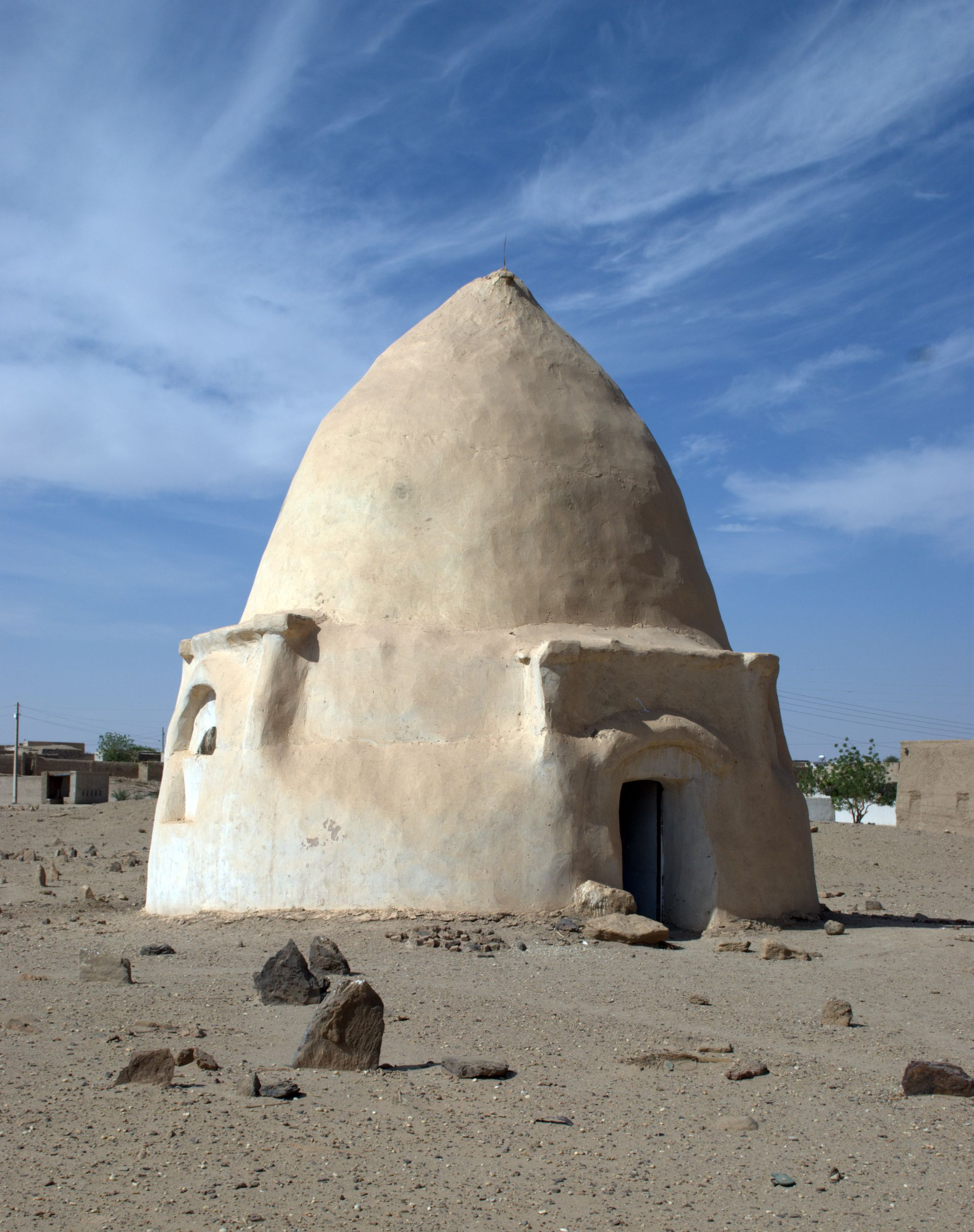 Wali tomb. South of Karima, Sudan